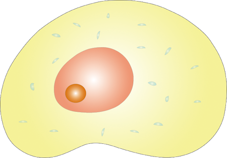 Chondrocyte. Images are from Togo picture gallery maintained by Database Center for Life Science (DBCLS).